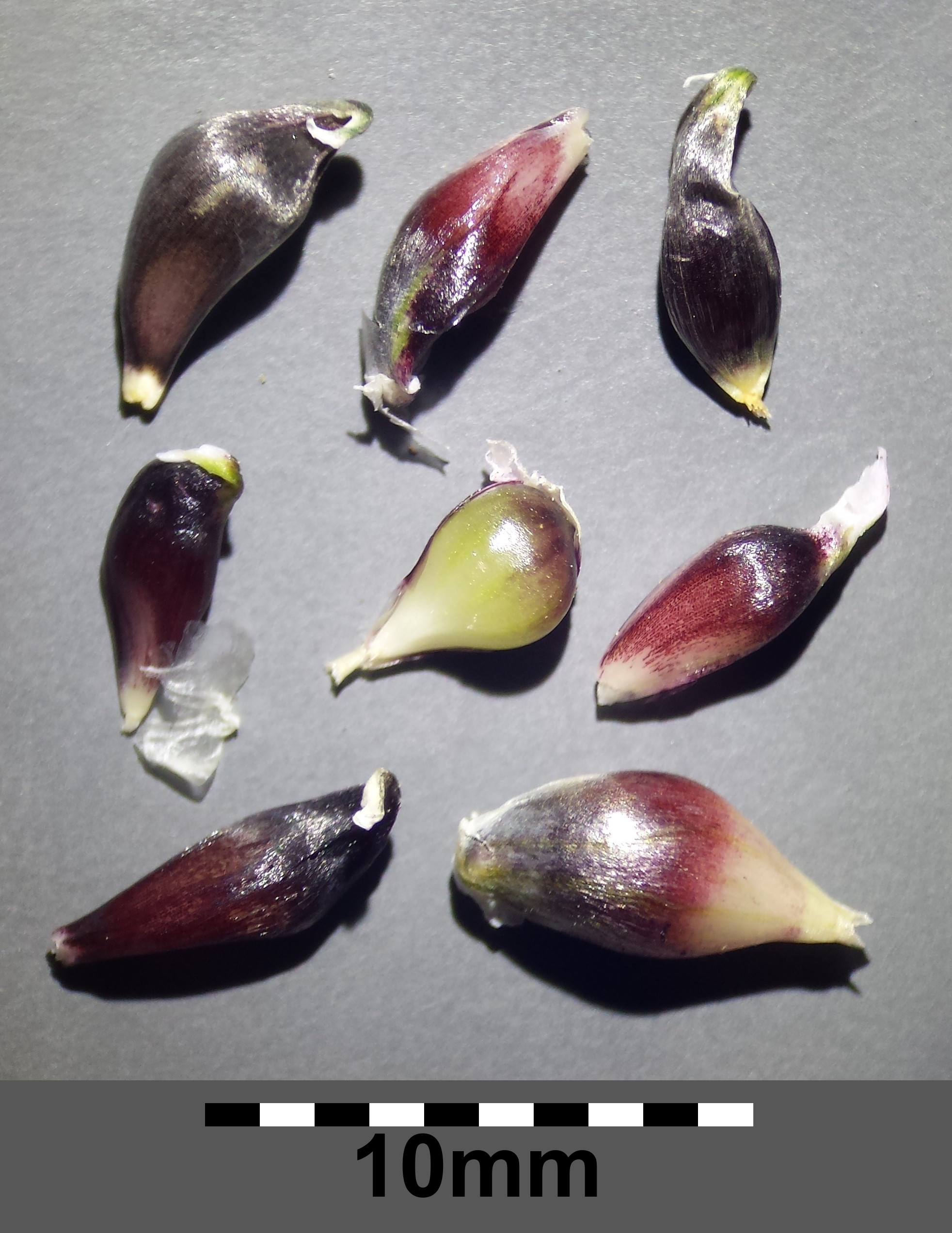 Bulbills Taxonym: Allium scorodoprasum ss Fischer et al. EfÖLS 2008 ISBN 978-3-85474-187-9 Location: Schwarze Lacke, Vienna-Floridsdorf - ca. 160 m a.s.l. Habitat: dry meadow